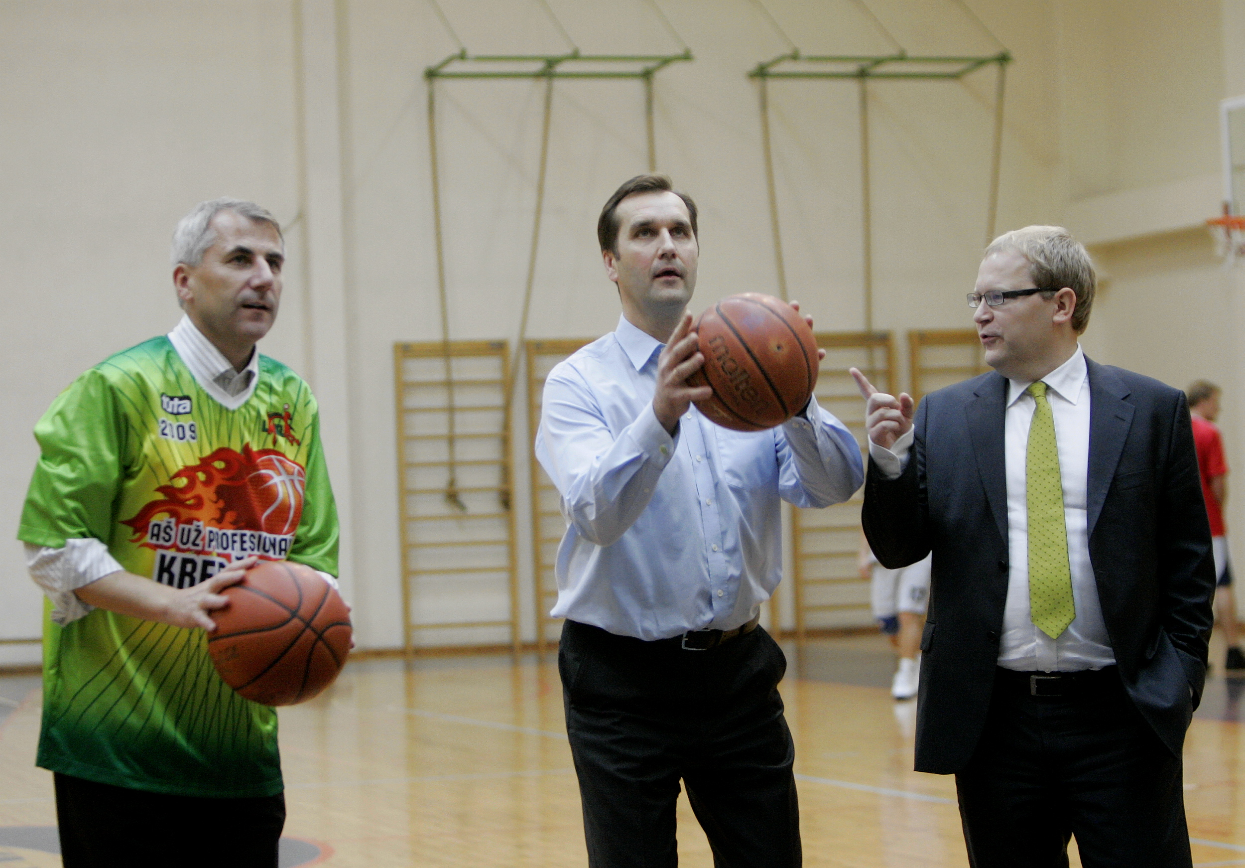 Maris Riekstins during an annual basketball even between Latvia, Lithuania, Estonia and Finland